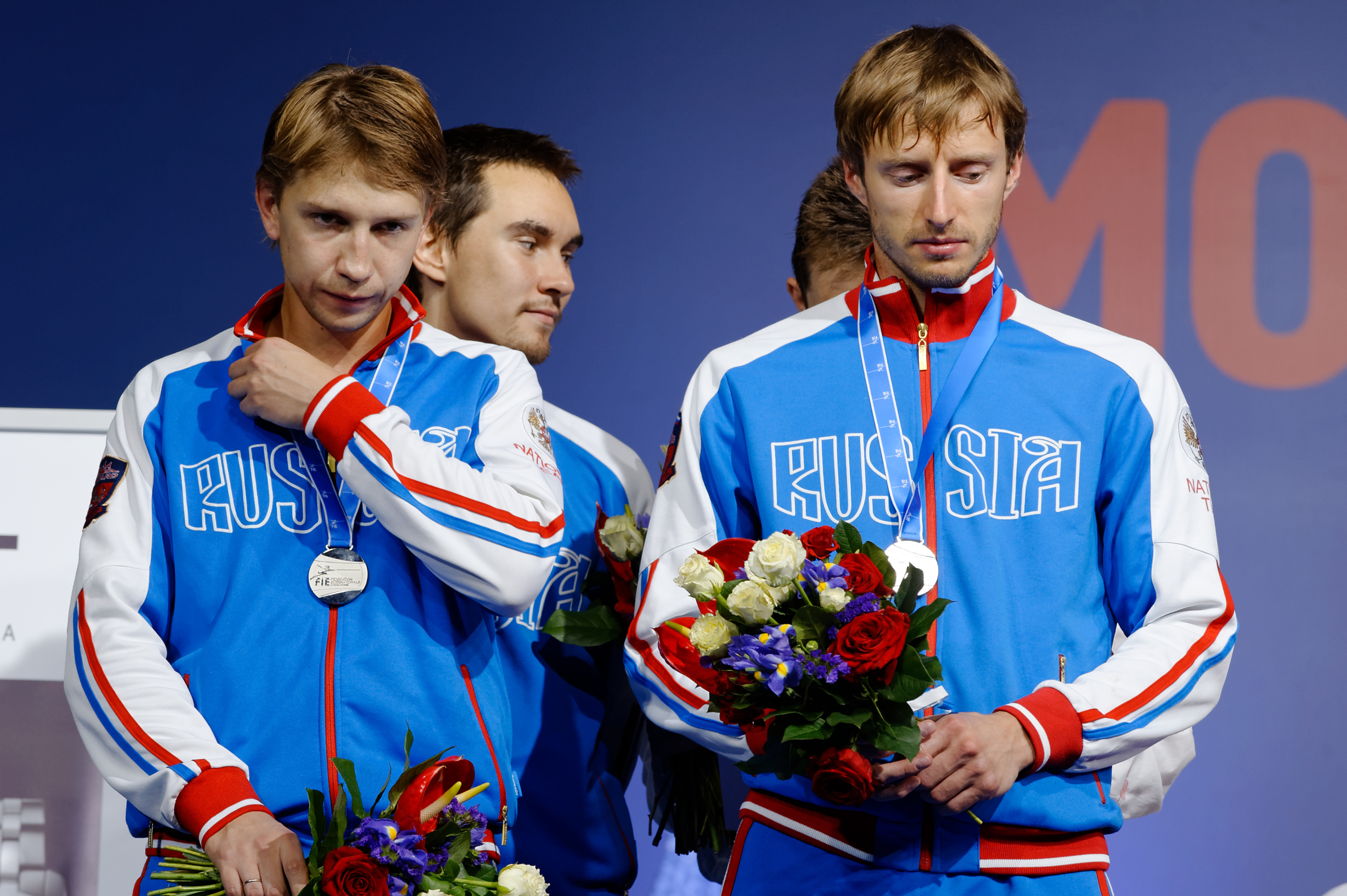 Russia at the medal ceremony of the men's team sabre event of the 2015 World Fencing Championships on 17 July 2014 at the Olympic Stadium in Moscow.